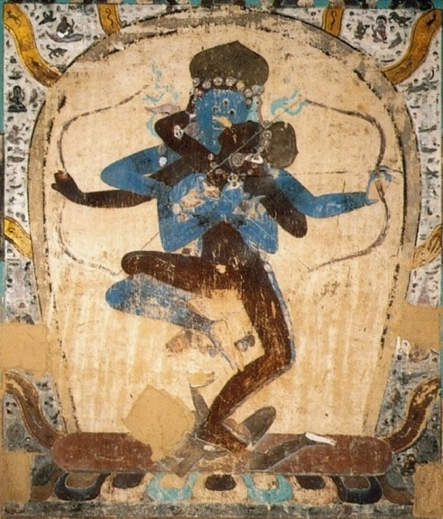 The Tantric image from Cave 465, Dunhuang. Yuan dynasty, 14th century.